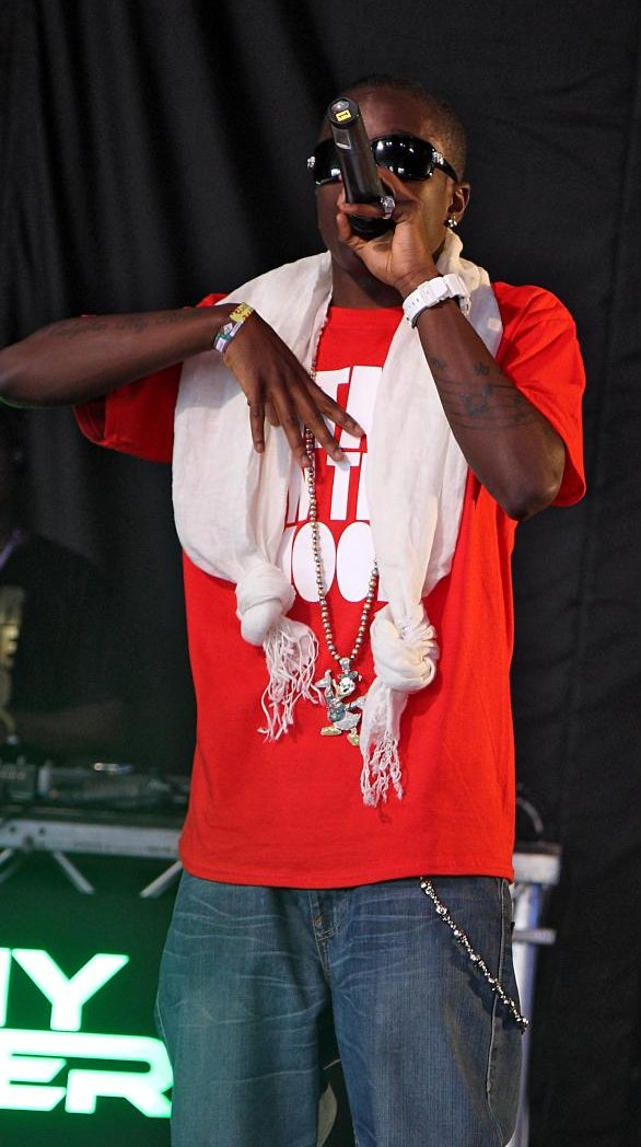 Glastonbury 2009 27th_0016 ( Tinchy Stryder ) ( Tinchy Stryder )